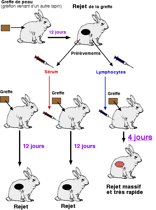 medawar's team experimentations on rabbits: graft rejection